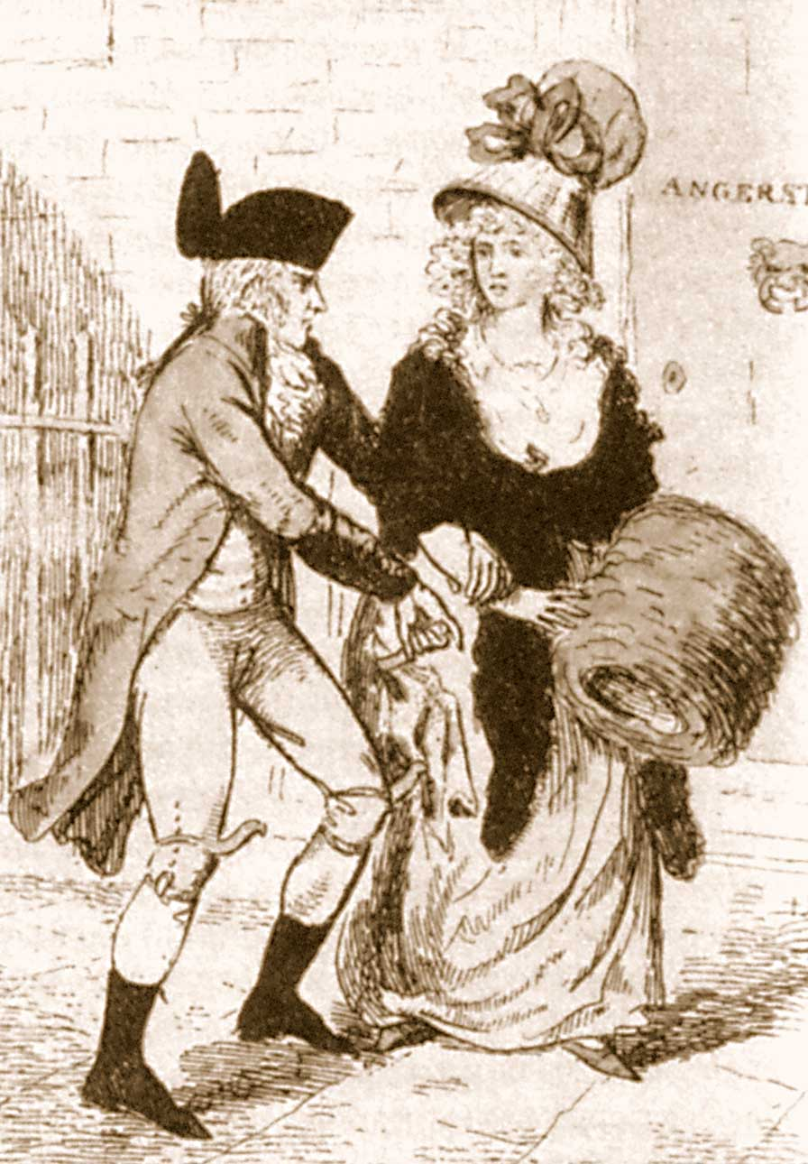 May 1, 1790, illustration (slightly cropped) by Isaac Cruikshanks of the London Monster attacking a woman.